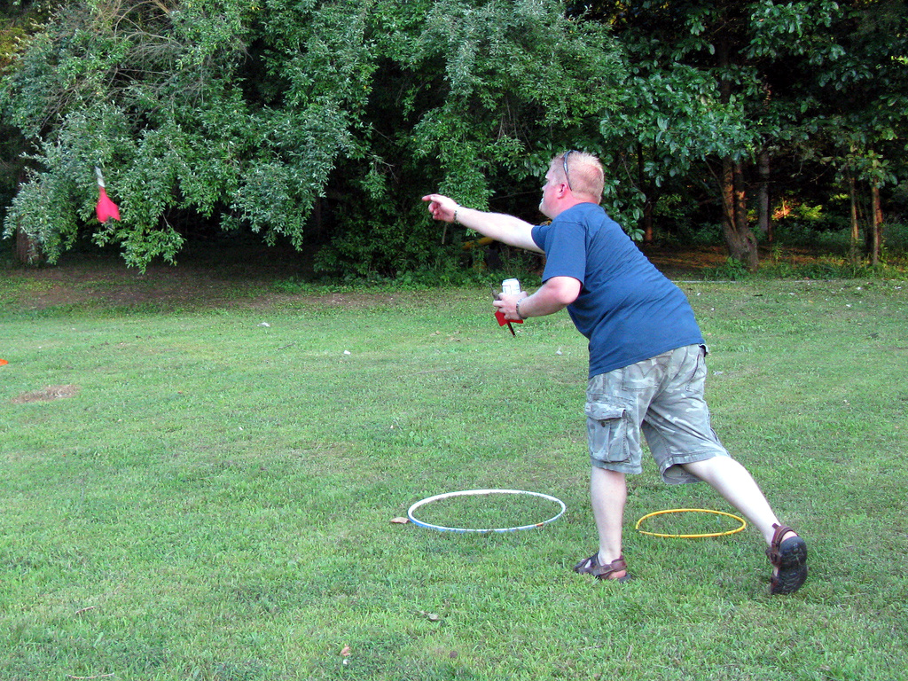 A man throwing lawn darts. Photo taken in the United States, with a Canon PowerShot A650 IS digital camera.